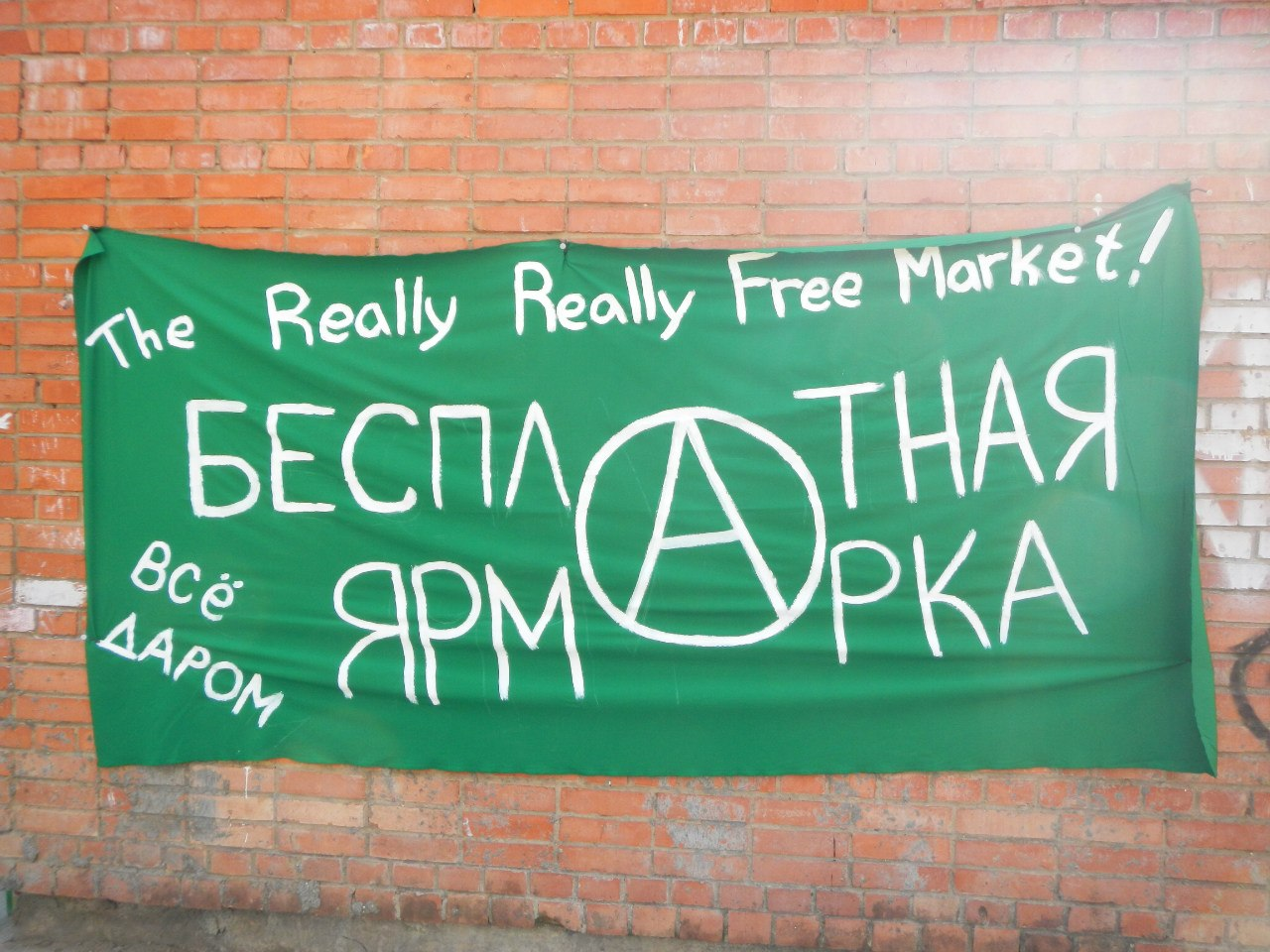 Roll-up at the Absolutely Free Fair in Ivanovo, Russia on 4 August 2012.